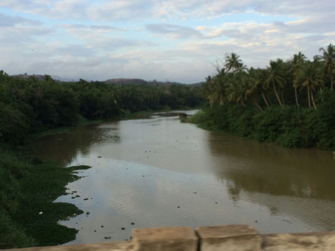 This picture taken by me at Nesamani Bridge, Gnaramvilai இந்த புகைப்படத்தை நான் Click செய்தது 24 January 2019 அன்று நேசமணி பாலம் ஞாறாம்விளை